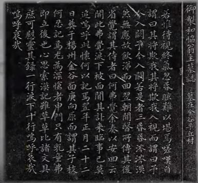 The second part to Yeongjo's elegy